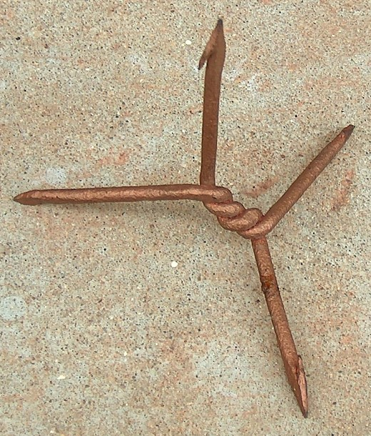 Caltrop from Vietnam - 1968. This item was brought back from Vietnam by 1LT Jack Slimp, Jr. in 1968. It is an iron caltrop and has been spray painted to help preserve it.